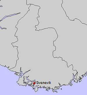 Location of Svenevik in Vest-Agder, Norway